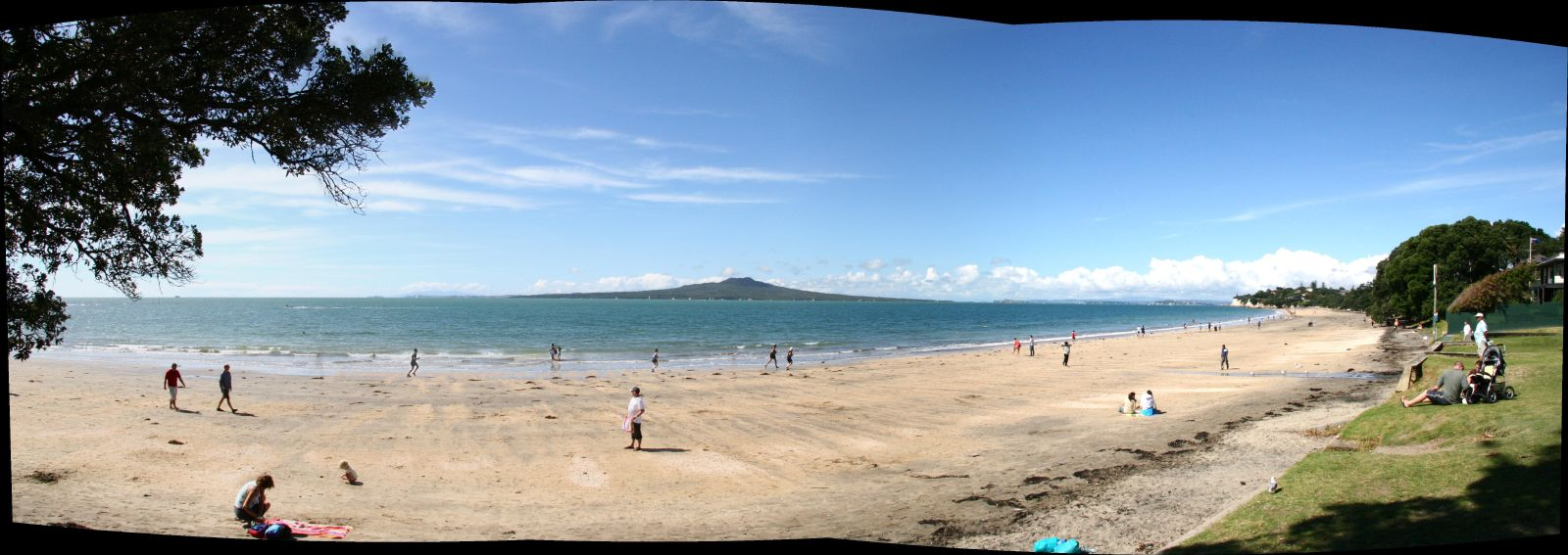 Takapuna Beach, North Shore City, New Zealand